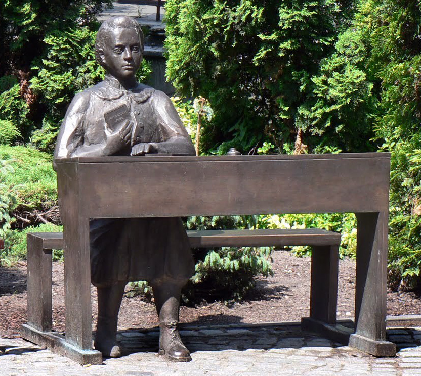 Monument of Bronisława Śmidowiczówna in Września, Poland